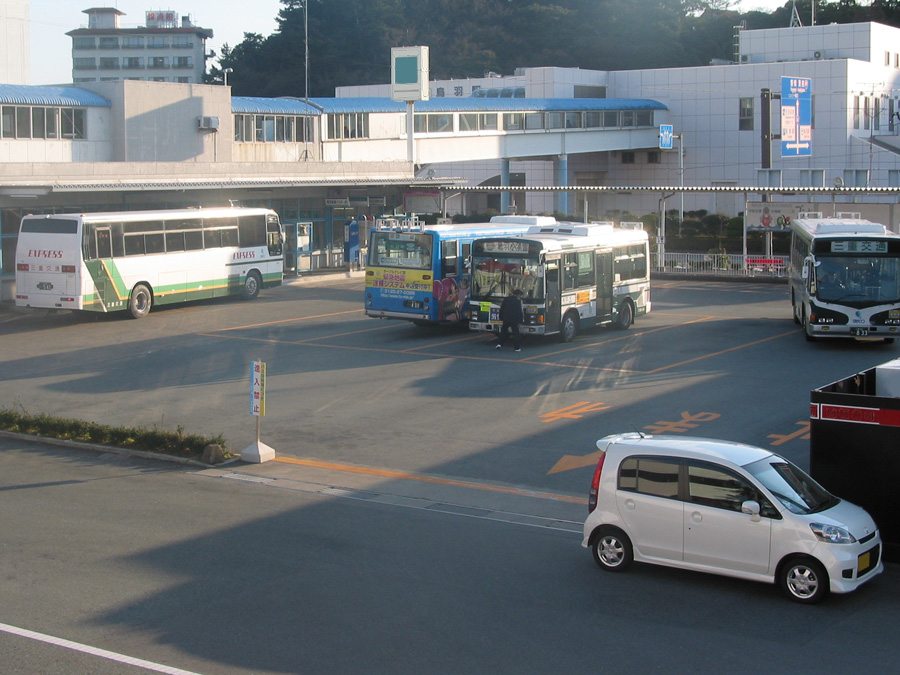 Toba Bus Terminal I took this image at Toba-1 Toba, Mie Pref., Japan. 鳥羽バスターミナル 三重県鳥羽市鳥羽1丁目で撮影